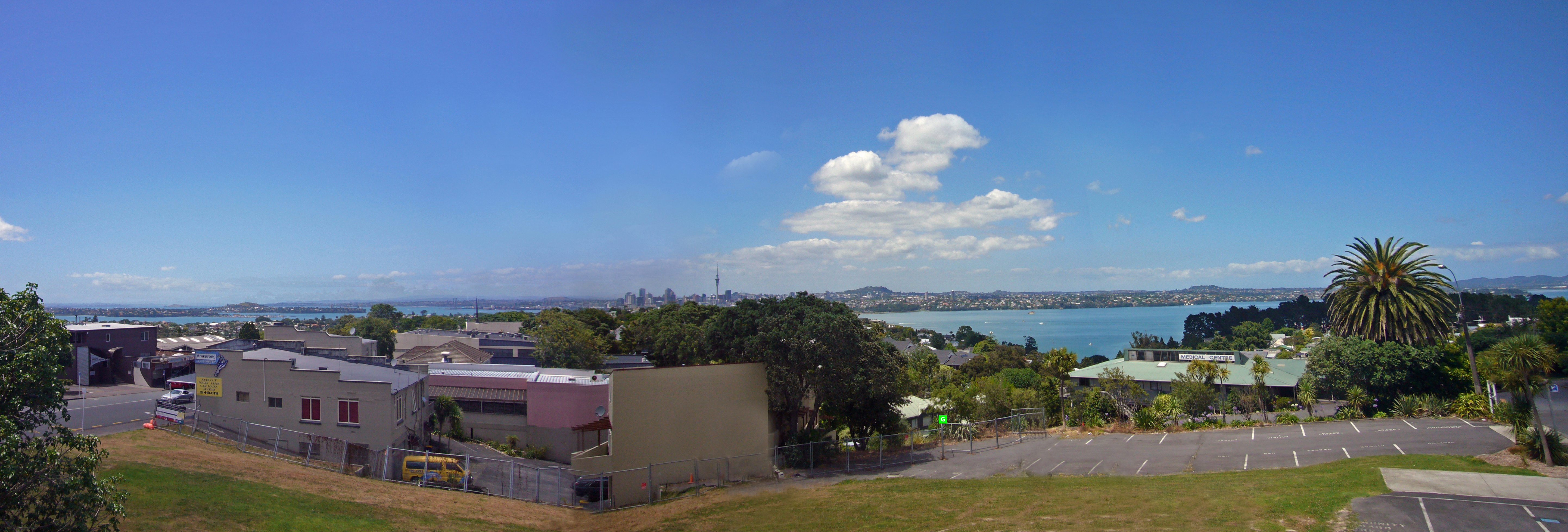 View of Hauraki Gulf, Devonport, Auckland Harbour, Sky Tower, Mt Eden, etc as seen from Birkenhead Library site. Approximate location 4m from ground, up tree on west side. Point 'G' is the position Image:GreenspaceBirkenheadLibrary.jpg was taken from.